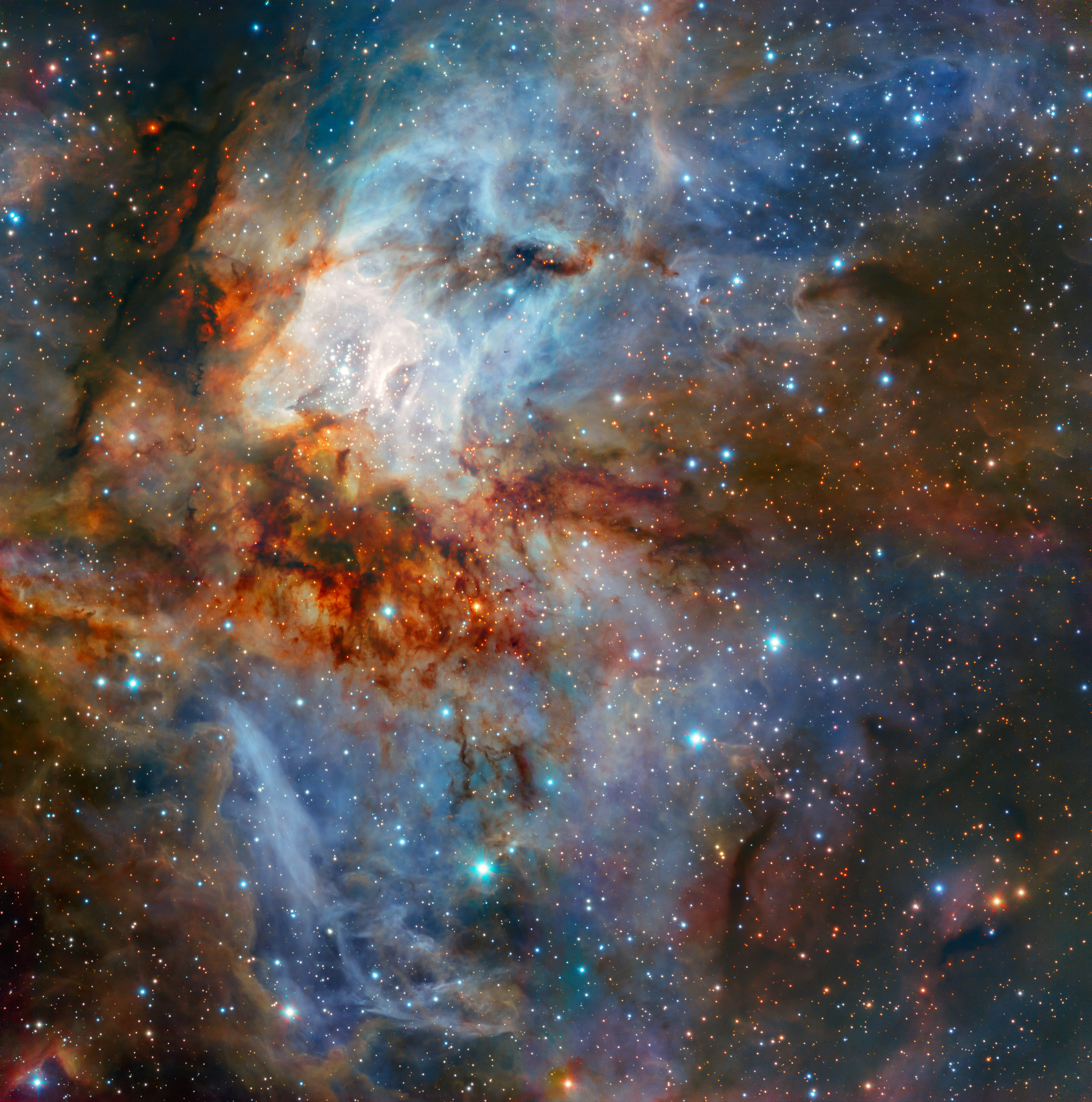 New observations with ESO’s Very Large Telescope show the star cluster RCW 38 in all its glory. This image was taken during testing of the HAWK-I camera with the GRAAL adaptive optics system. It shows the cluster and its surrounding clouds of brightly glowing gas in exquisite detail, with dark tendrils of dust threading through the bright core of this young gathering of stars.